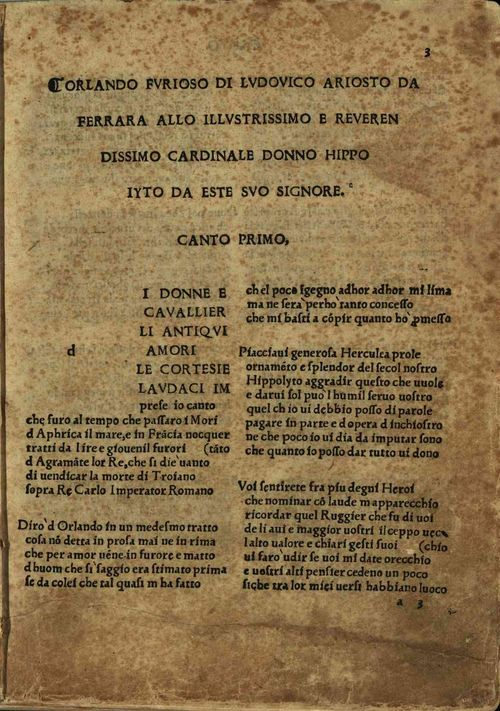 Beginning of Orlando Furioso, by Ludovico Ariosto, Ferrara 1516 Biblioteca comunale Ariostea - Ferrara